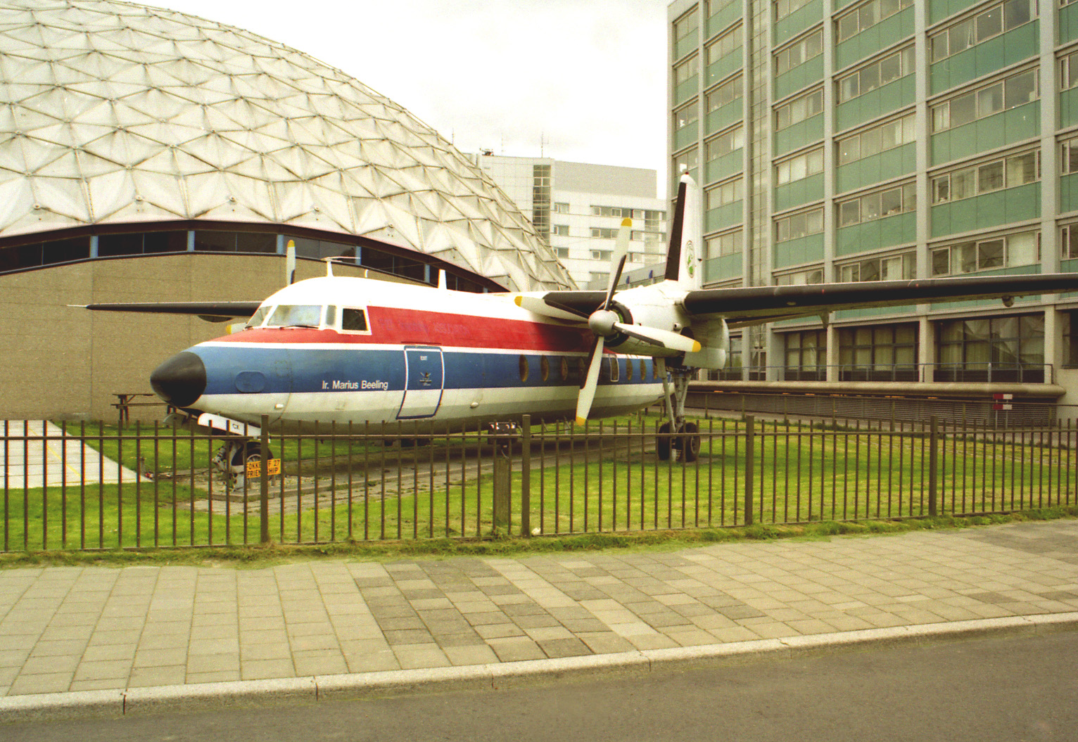 Fokker F-27 Friendship outside the former Aviodome Museum at Schiphol (Amsterdam int. airport, Netherlands)